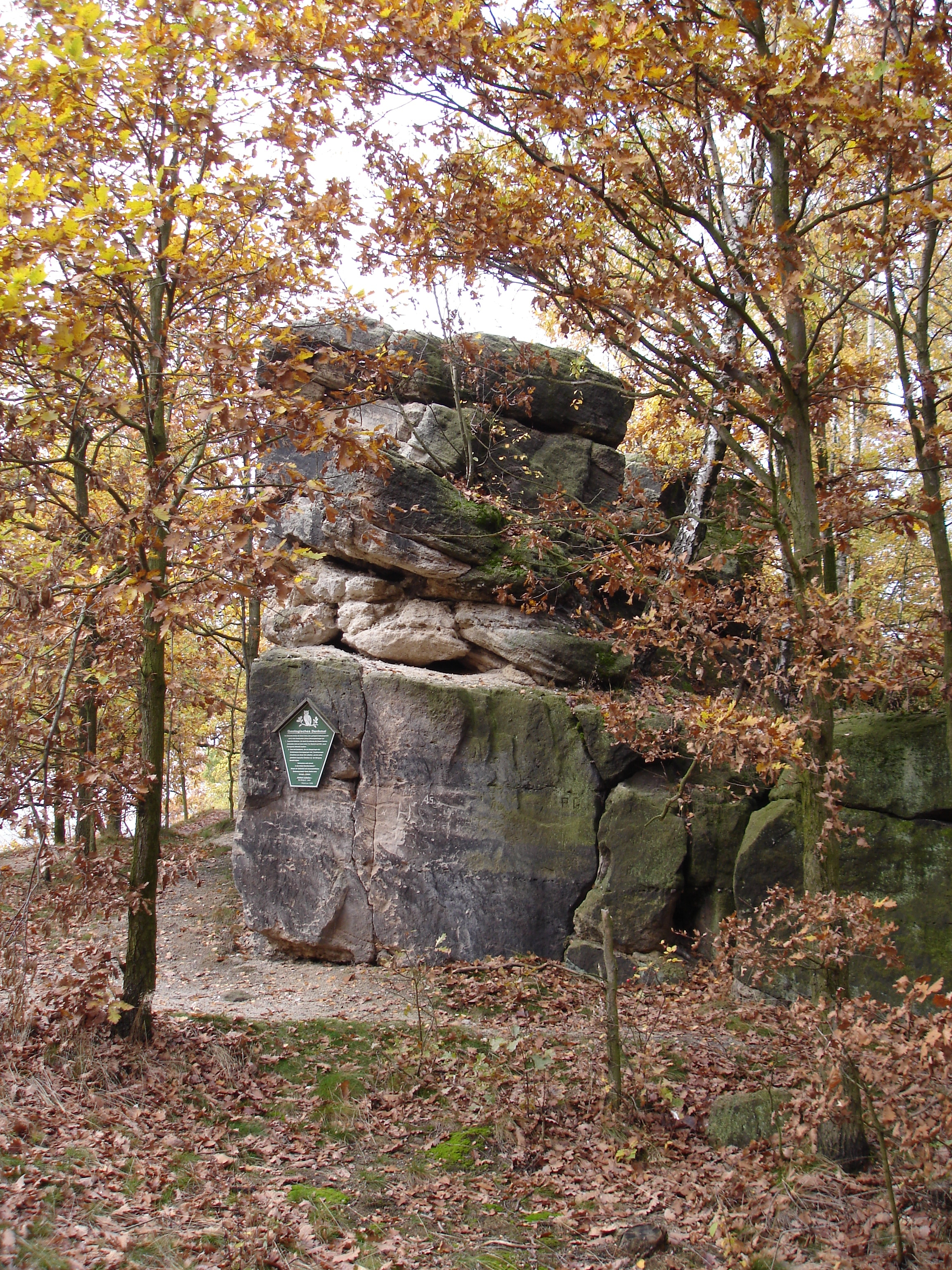 Götzenbüschchen near Oelsa, Saxony, Germany